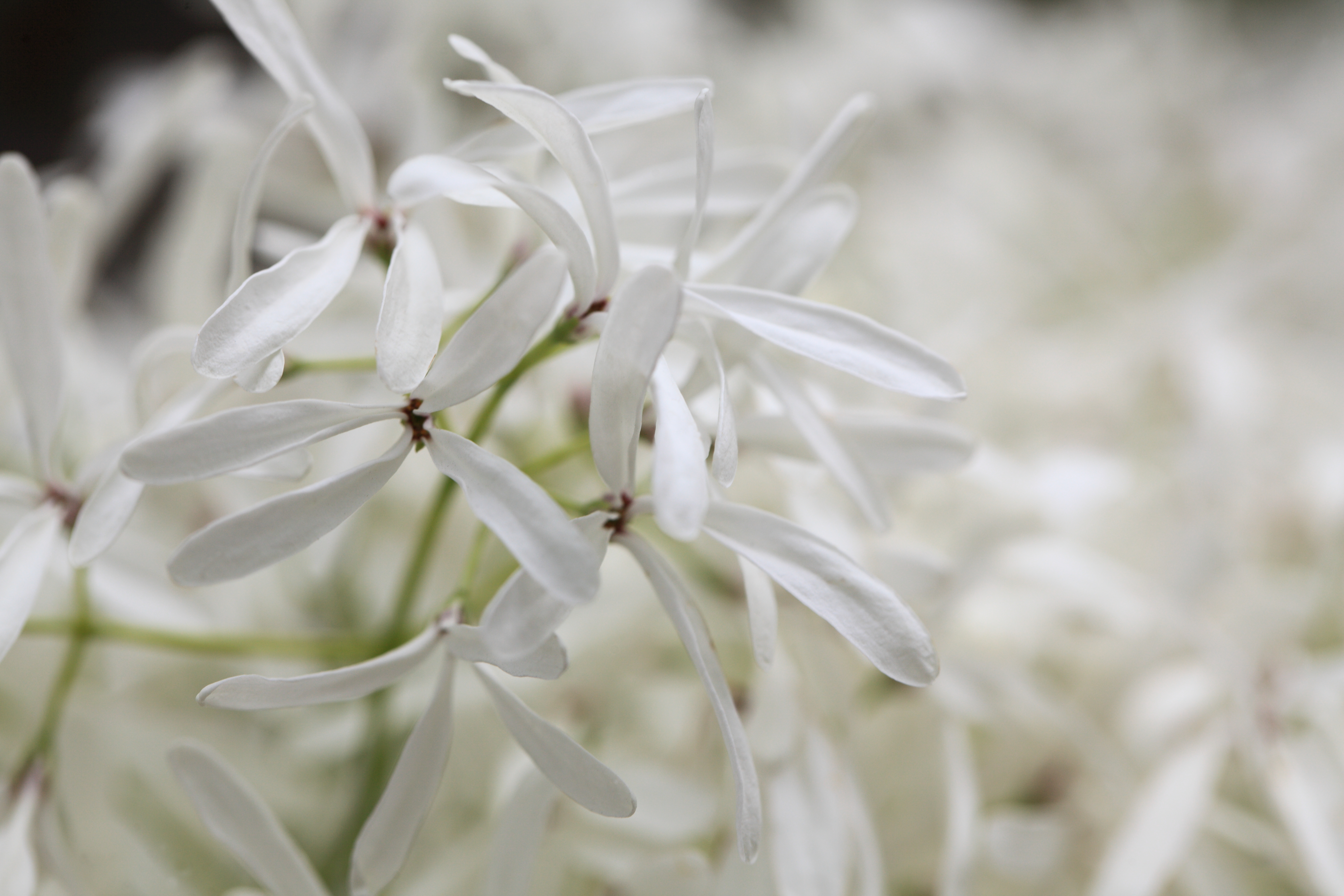 Flowers of the Chinese fringetree (Chionanthus retusus) in Aoba-no-mori-kouen Park, Chiba, Japan